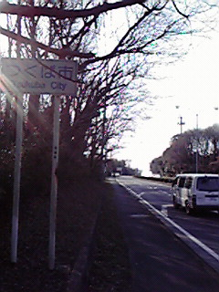 Boundary sign of Tsuchiura and Tsukuba.